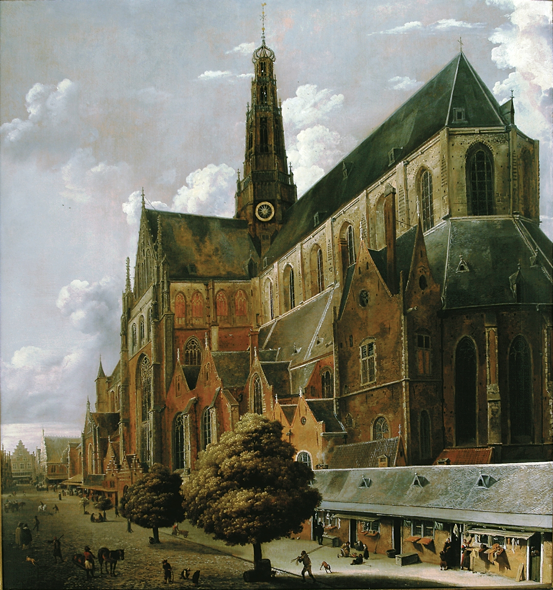 The Bavo church in Haarlem seen from the Oude Groenmarkt on the South side